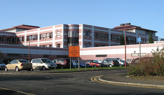 Queen Margaret Hospital The main hospital serving the Dunfermline area.